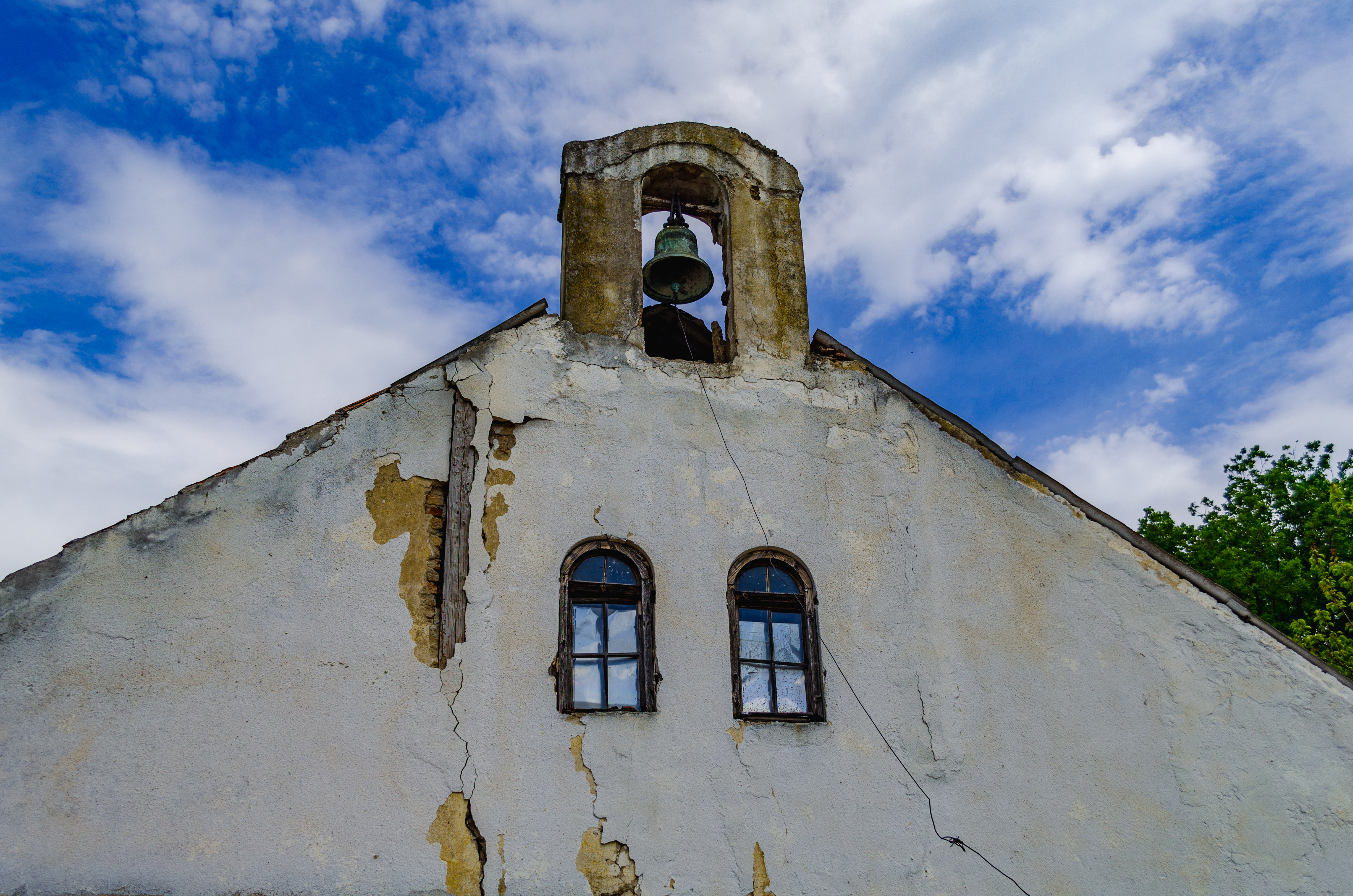 Bell of the St. Demetrius Church in the village Balinci